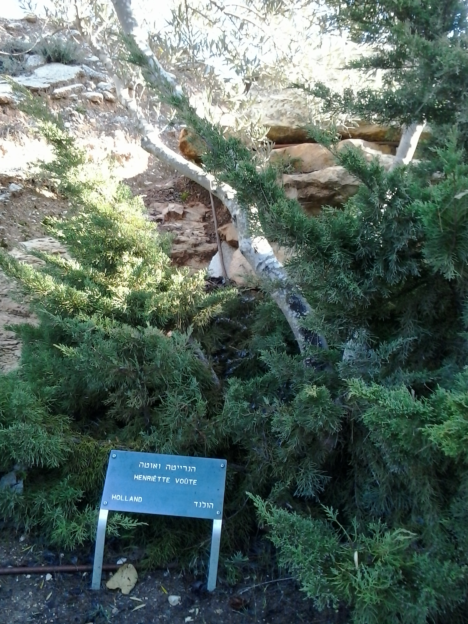 The tree planted at Yad Vashem honoring Righteous Among the Nations Henriette Voute